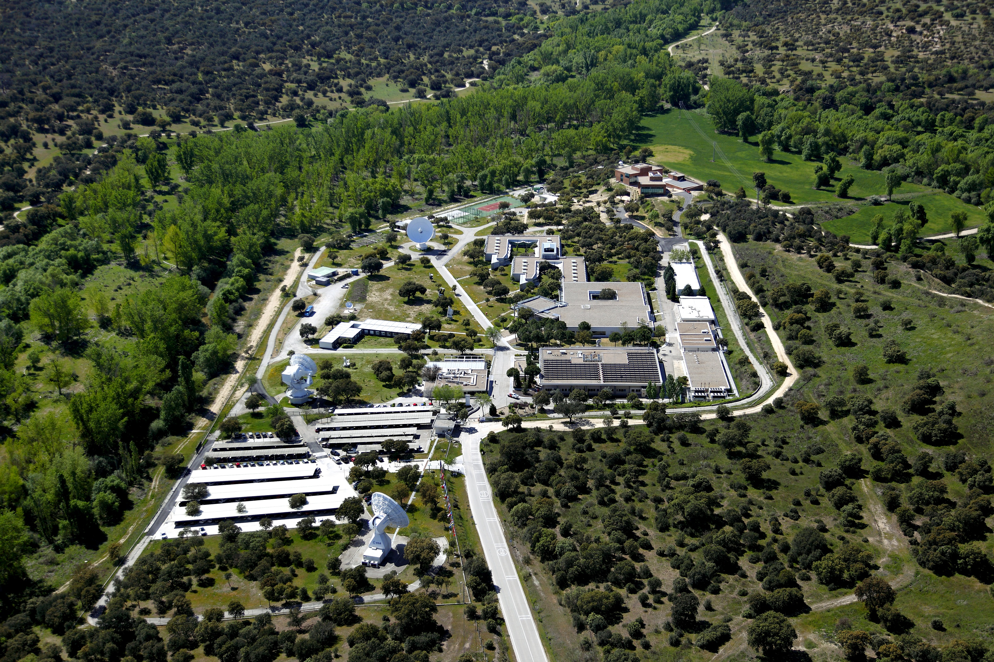 ESAC, the European Space Astronomy Centre, is the home of ESA’s astronomy, planetary and solar/heliospheric missions. All science missions are conducted from here and the resulting data is calibrated, processed, stored and distributed from the same site.